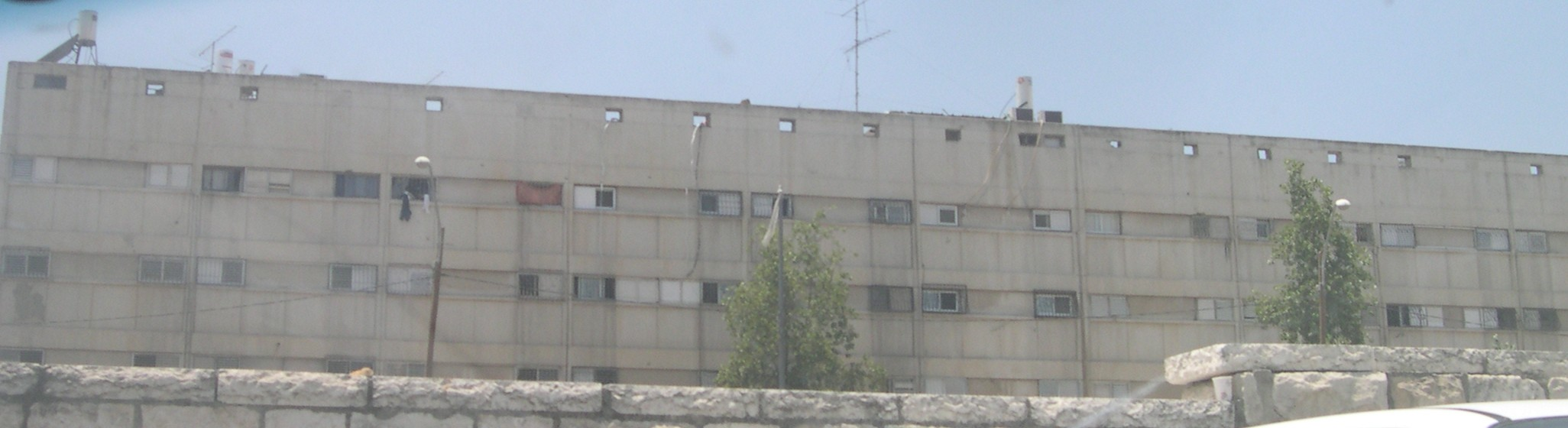 A building with sniper posts on its roof in the Musrara neighborhood, Jerusalem. Before the Six Day War it was on the border between Israel and Jordan.